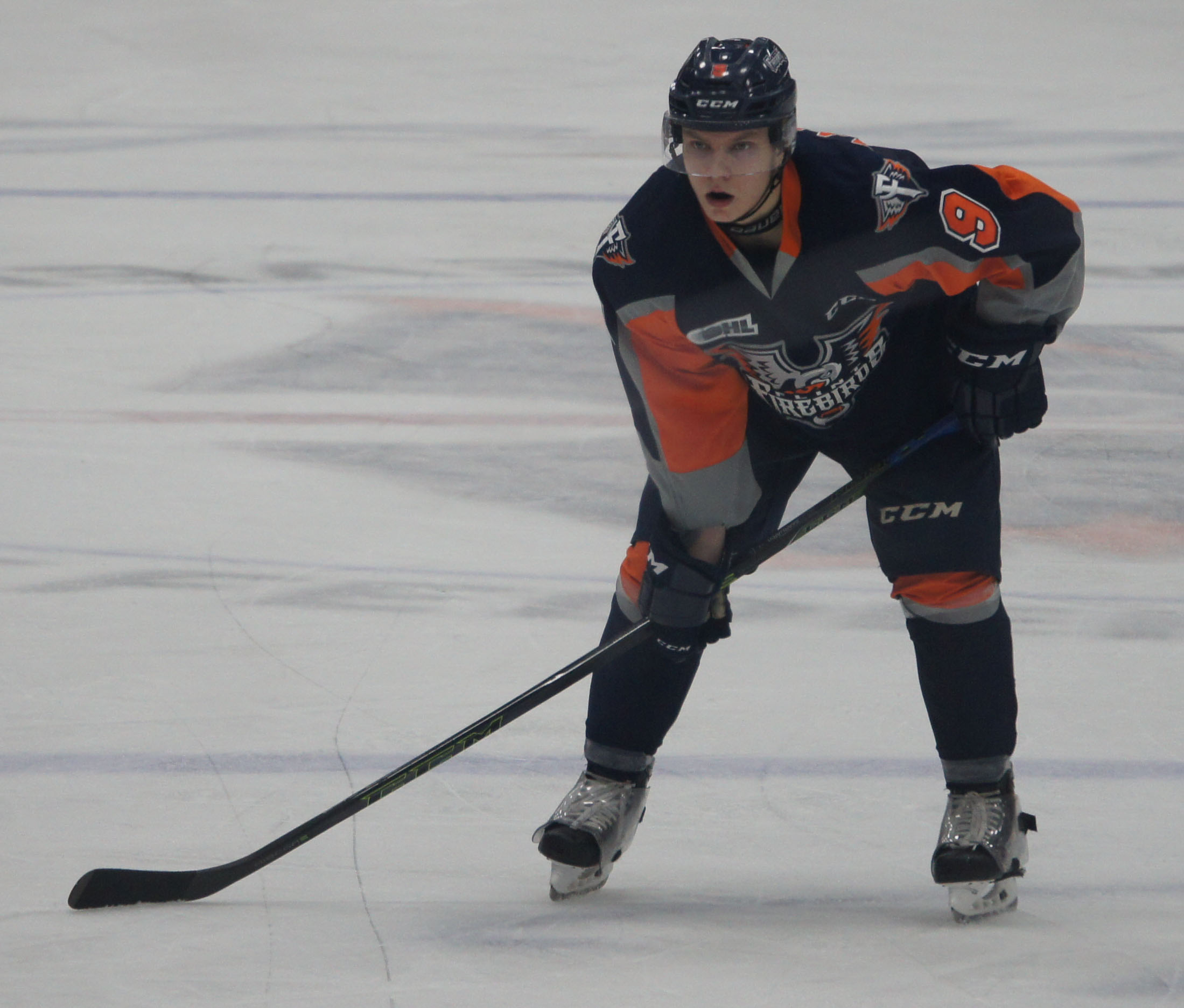 Vili Saarijärvi playing for the Flint Firebirds in Flint Michigan, March 19, 2016